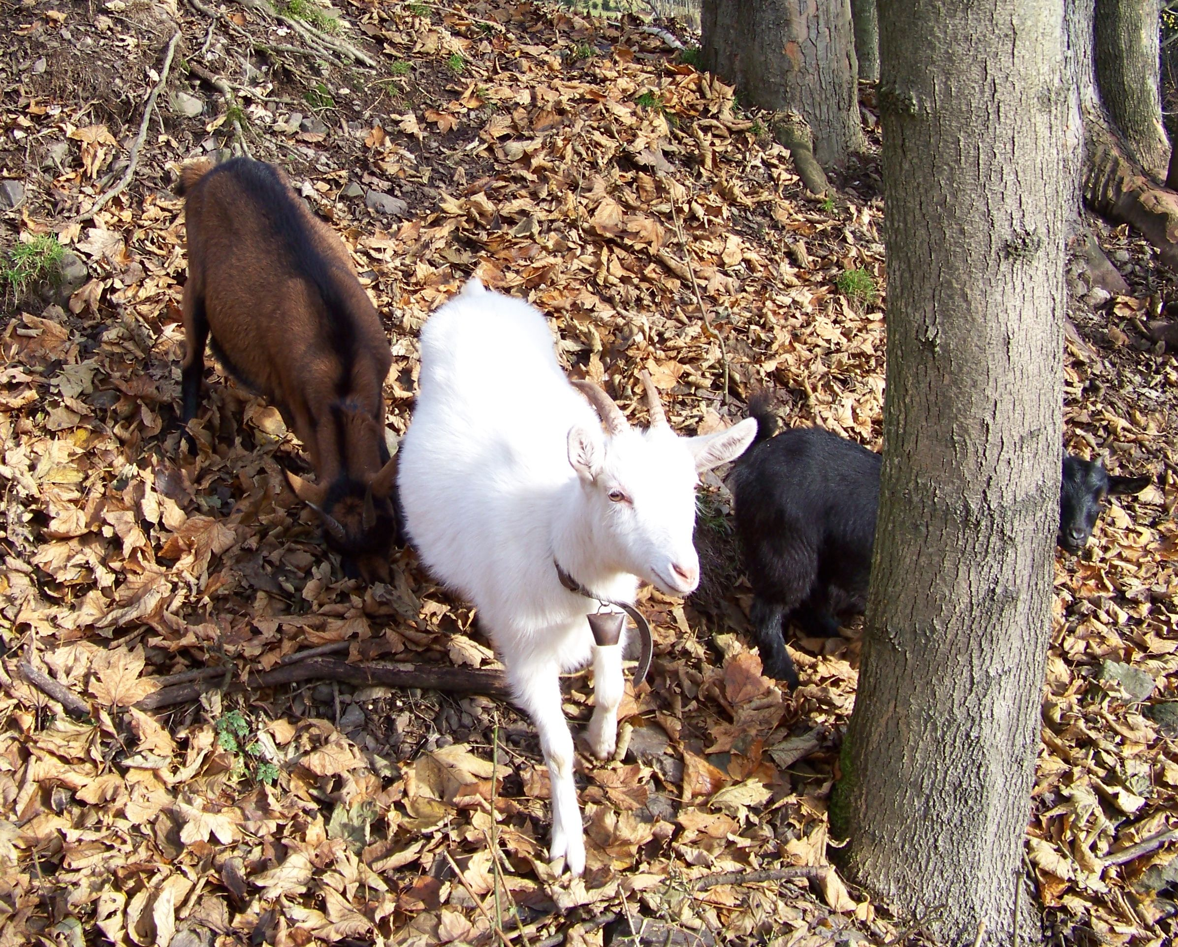 Goatlings. Tanvald-Český Šumburk, Jablonec nad Nisou District, Liberec Region, the Czech Republic.